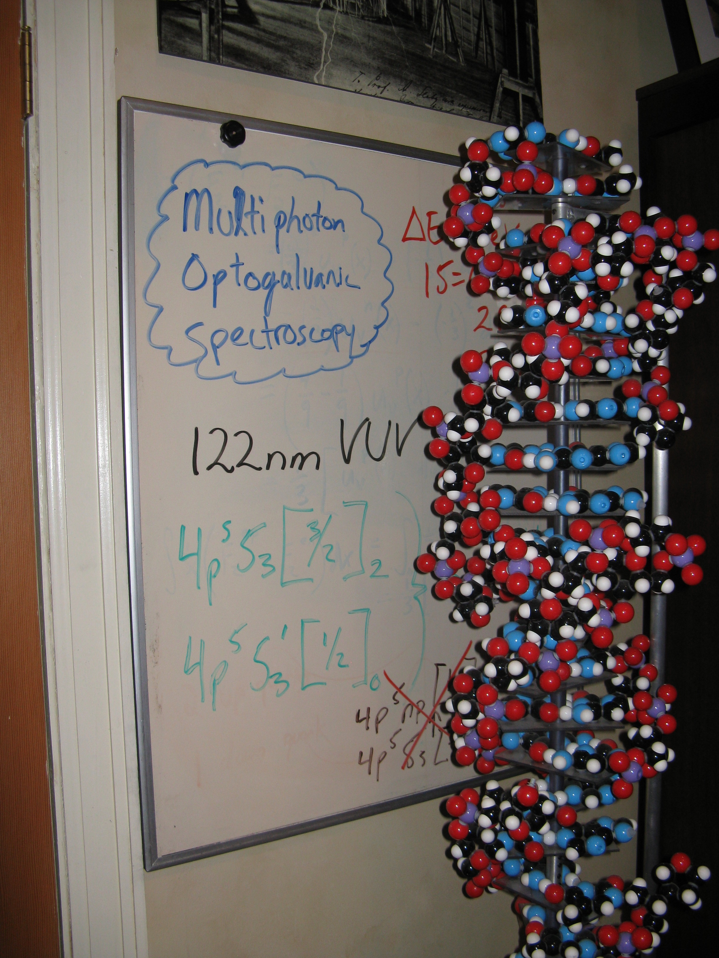 The Big Bang Theory sets at the Warner Bros. Studios, Burbank.